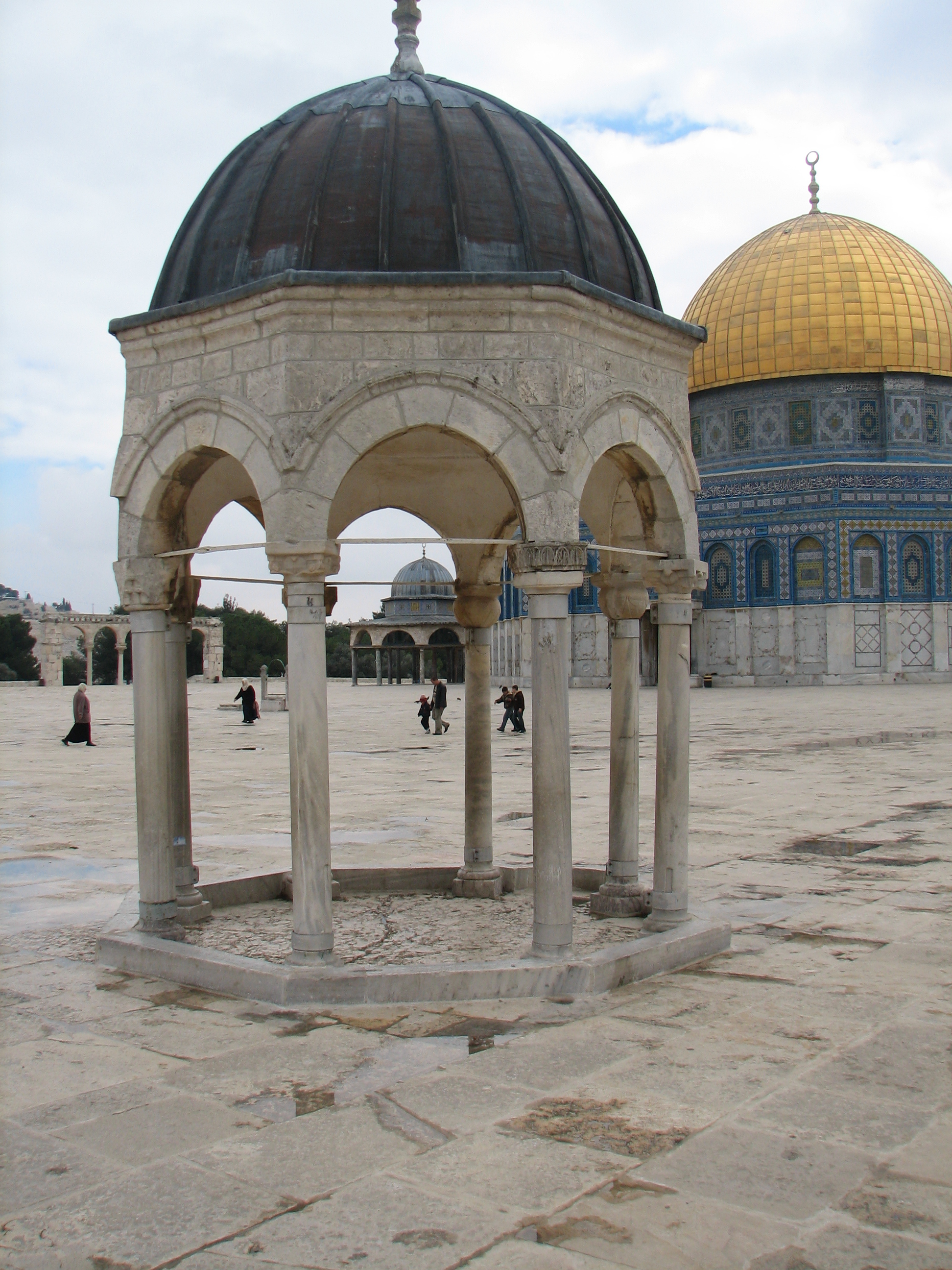 Al-Aqsa Mosque